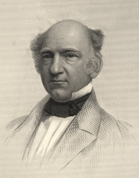 Portrait of Erastus Brigham Bigelow (1814–1879), American inventor. Engraving, original size 15.5×11 cm.